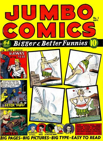 Cover, Jumbo Comics #1 (Sept. 1938) Fiction House (defunct publisher), art by unknown Eisner & Iger artist.